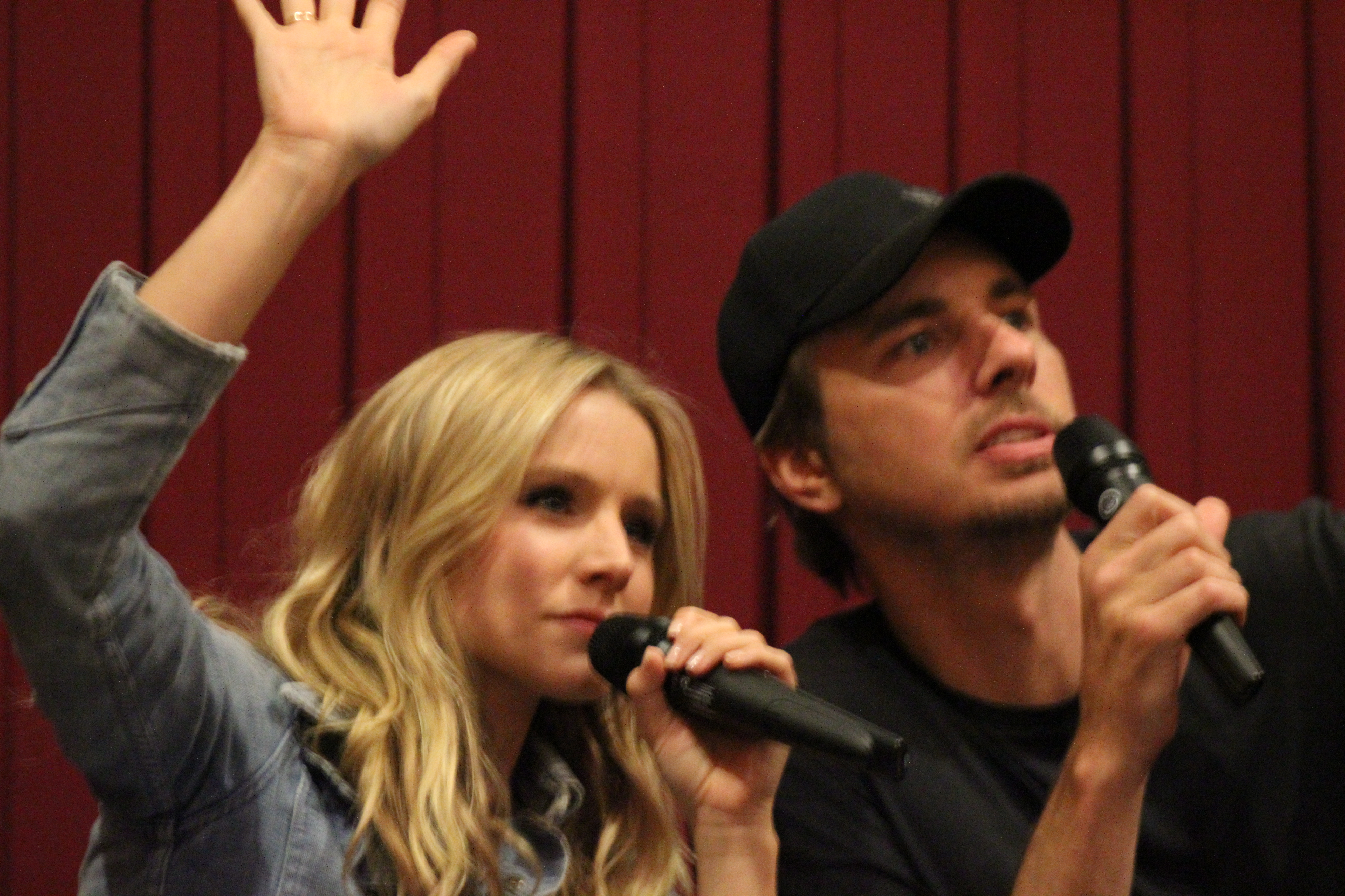 Kristen Bell and Dax Shepard in town to promote "Hit and Run"